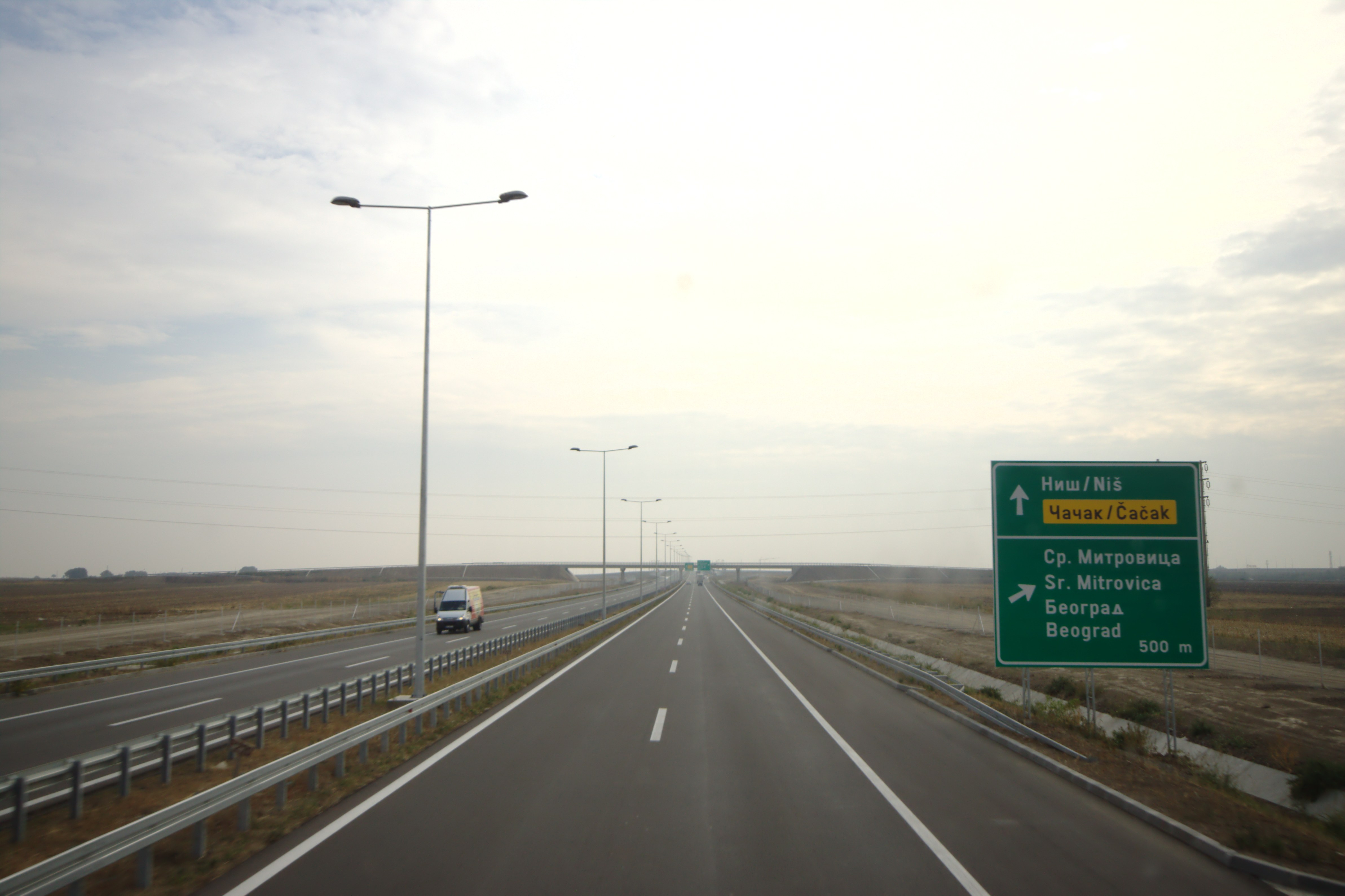 Western side of the Belgrade ring road, Serbia